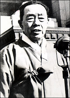 Kim Gyusik(1881(?) 1880(?) - 1950), Korean independence movement and politicians, Educator